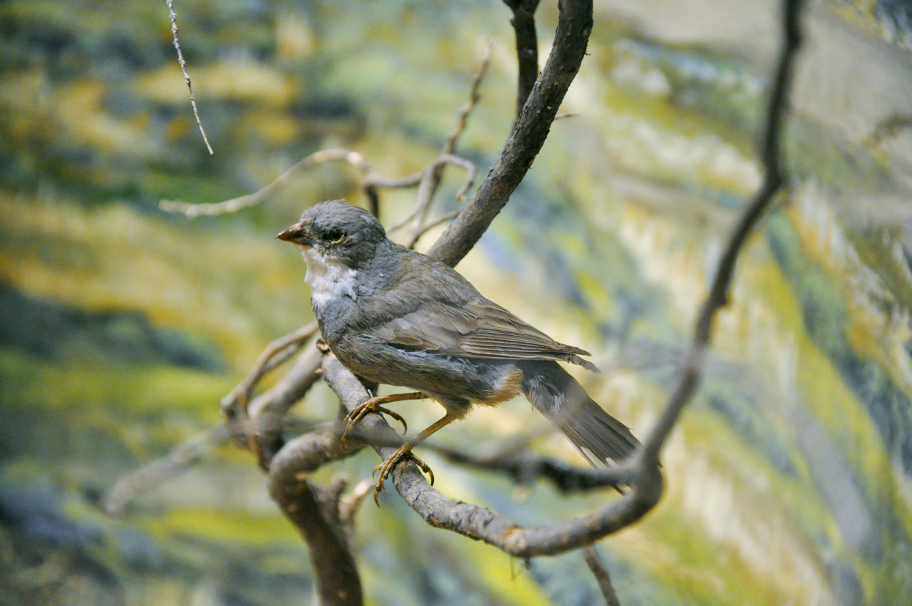 Diuca diuca - Common Diuca-Finch - Museum of Patagonia, San Carlos de Bariloche, Argentina